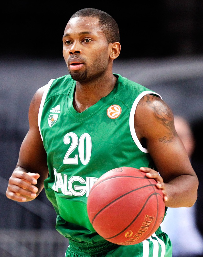 Basketball player Oliver Lafayette